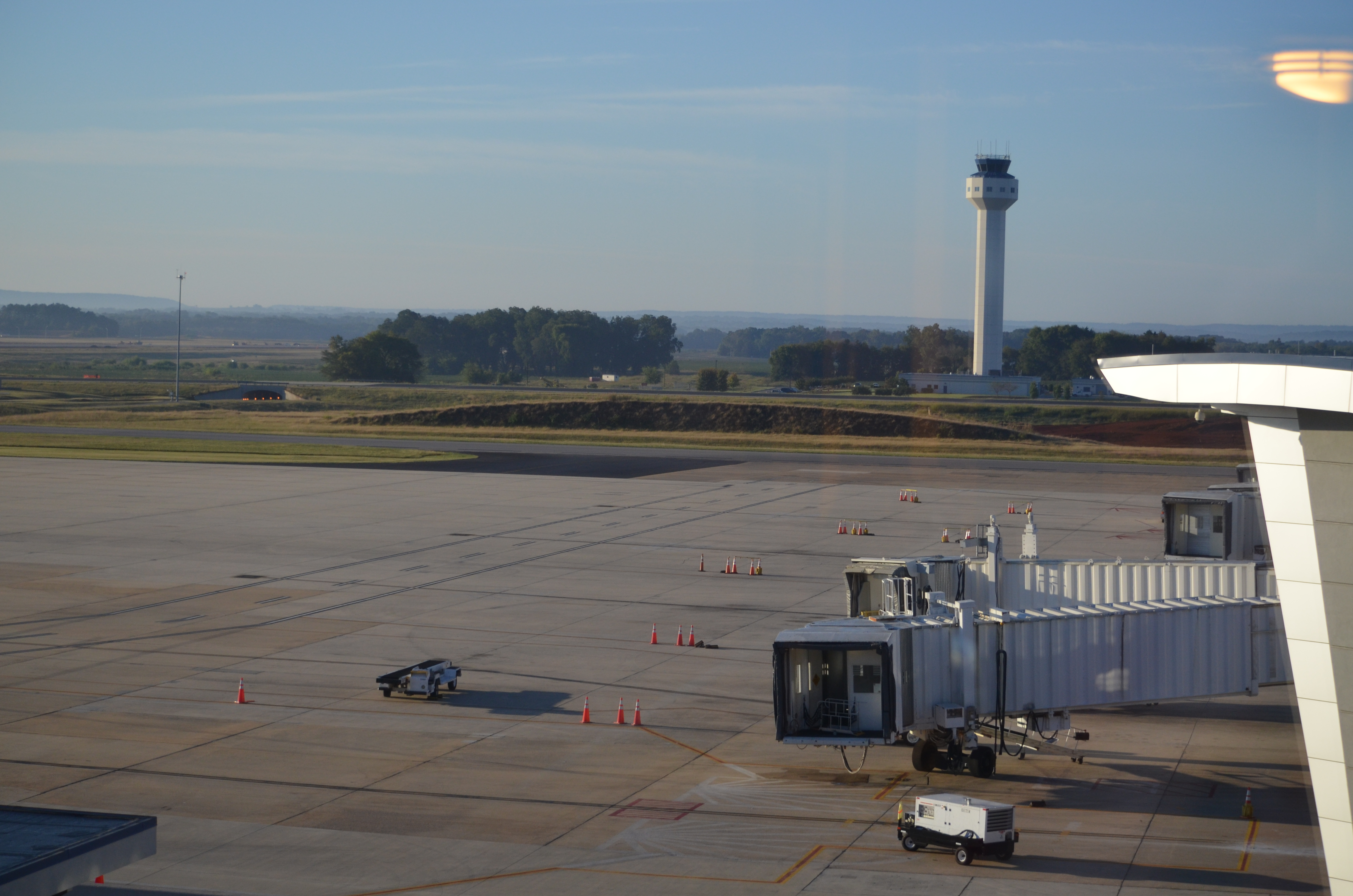 Huntsville International Airport Huntsville Alabama